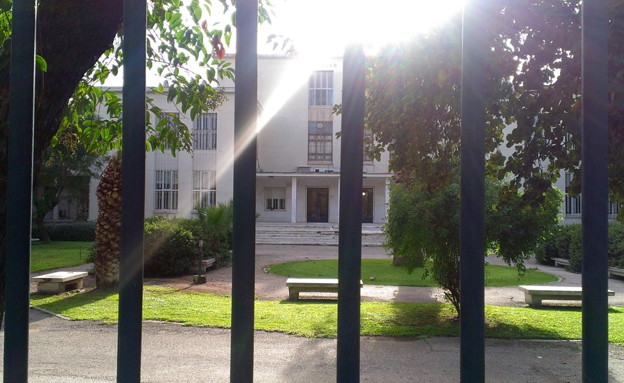 Agricultural University of Athens